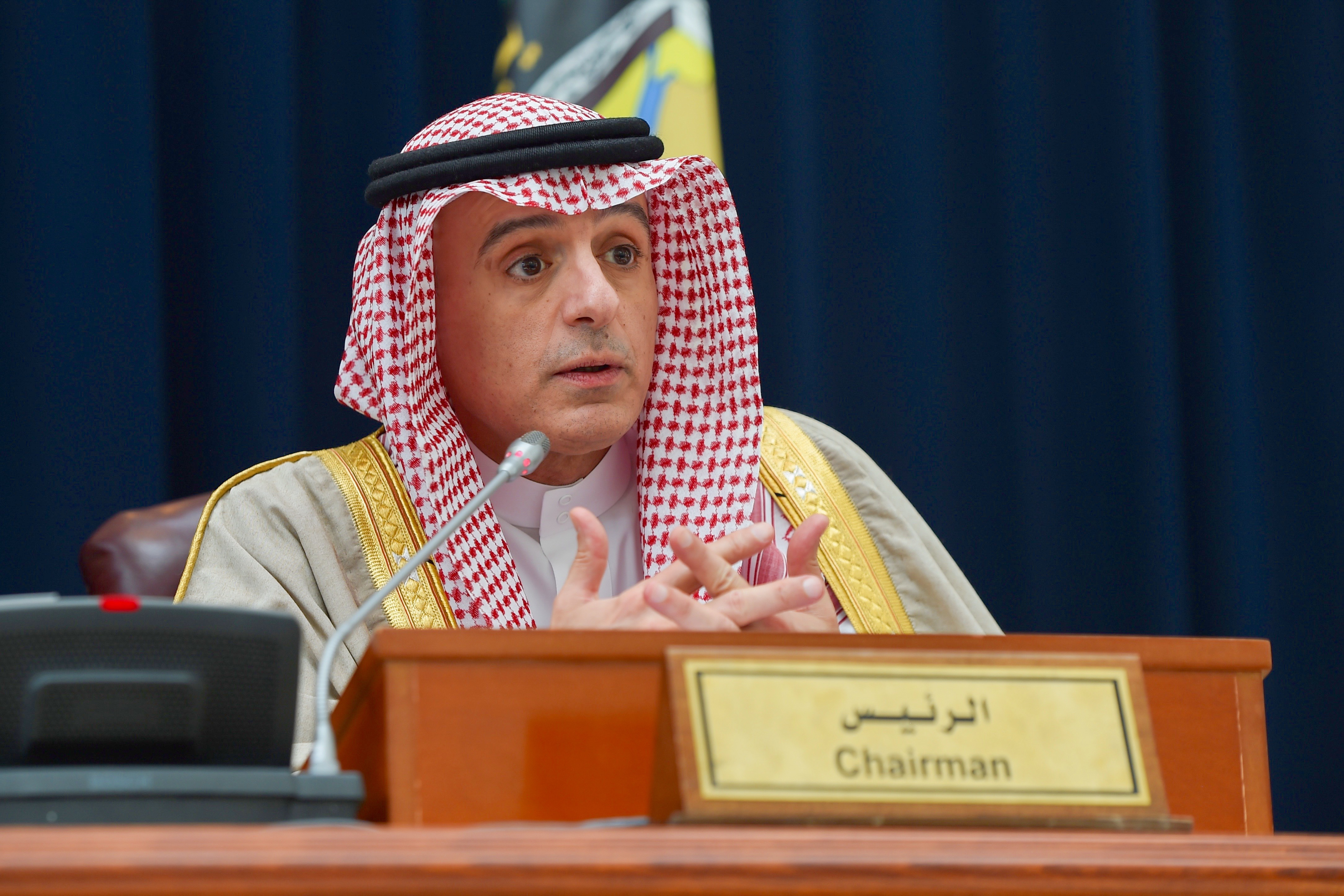 Saudi Arabia Foreign Minister Adel al-Jubeir, joined by U.S. Secretary of State John Kerry, addresses reporters following a meeting of the Gulf Cooperation Council member nations on January 23, 2016, in Riyadh, Saudi Arabia. [State Department Photo/Public Domain]